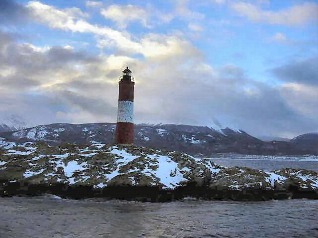 Ushuaia, Tierra del Fuego Province (Argentina).